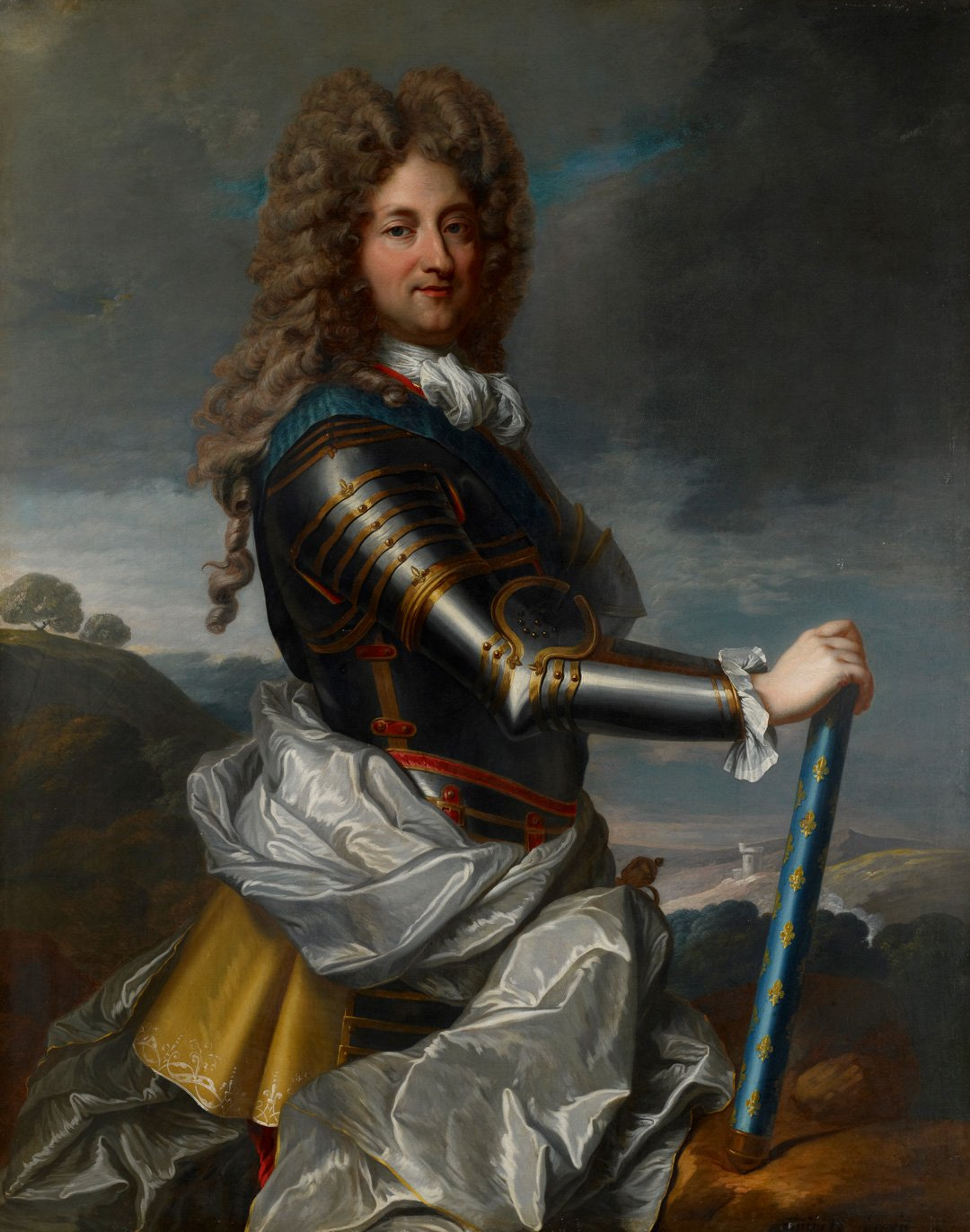 Portrait of Philippe II, Duke of Orléans (1674-1723) then the "Regent of France" with the sash of the Order of the Holy Spirit, wearing armour.